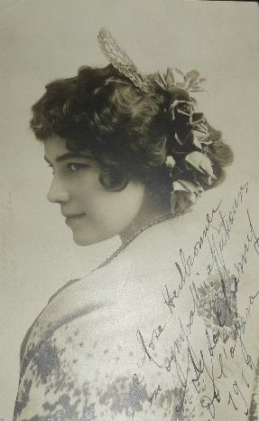 Photograph of the French contralto opera singer Lyse Charny, dated 1916